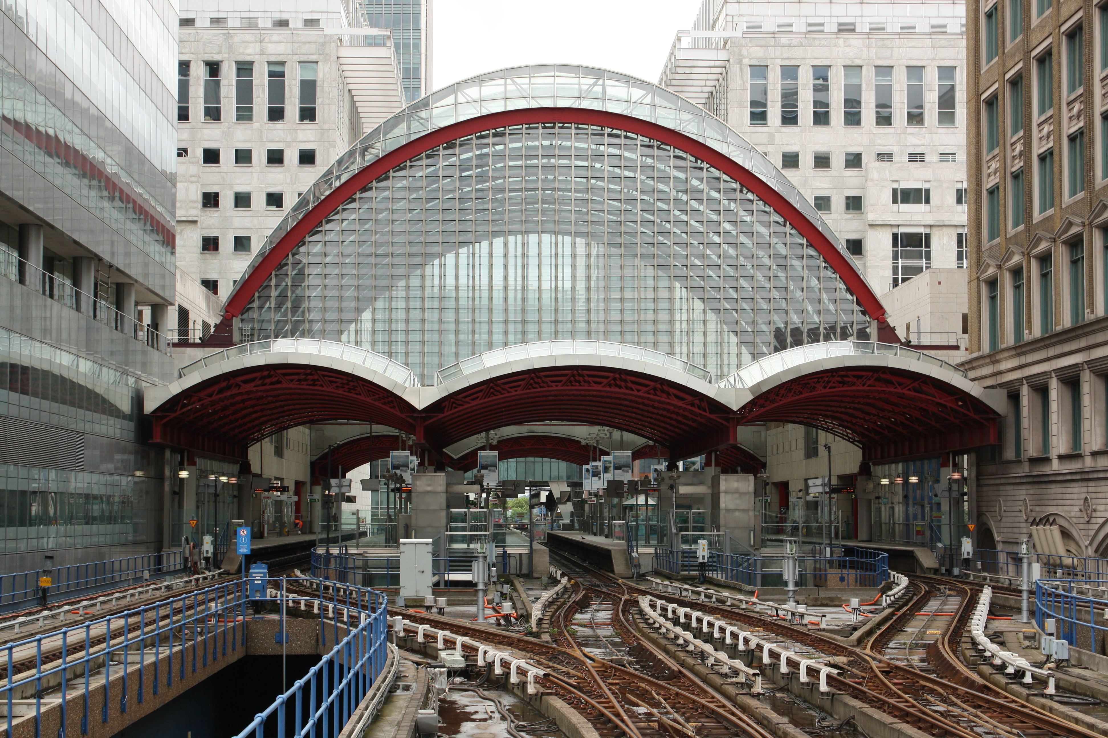 Canary Wharf on 3 June 2012